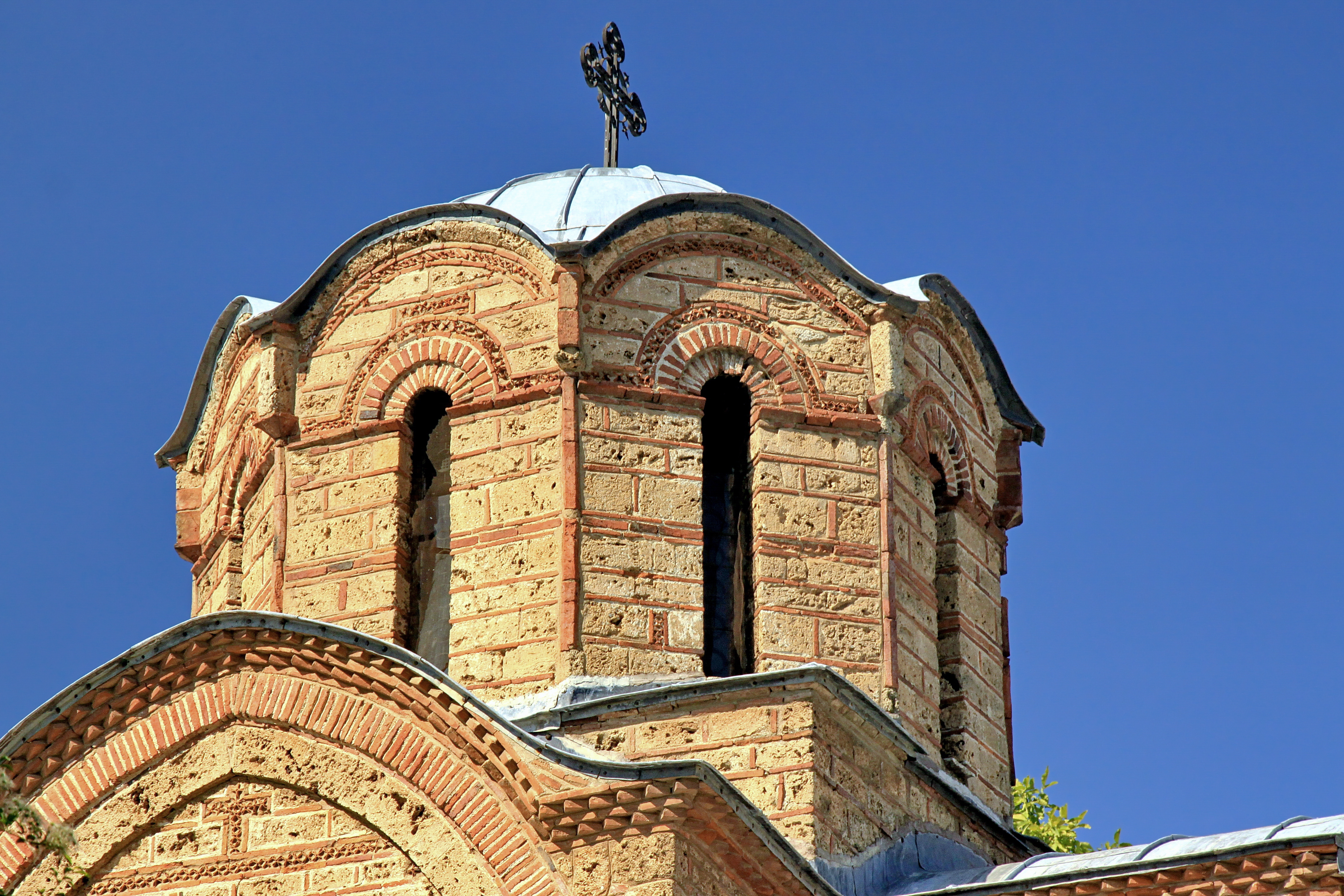 Church of Our Lady of Ljeviš. Prizren, Kosovo